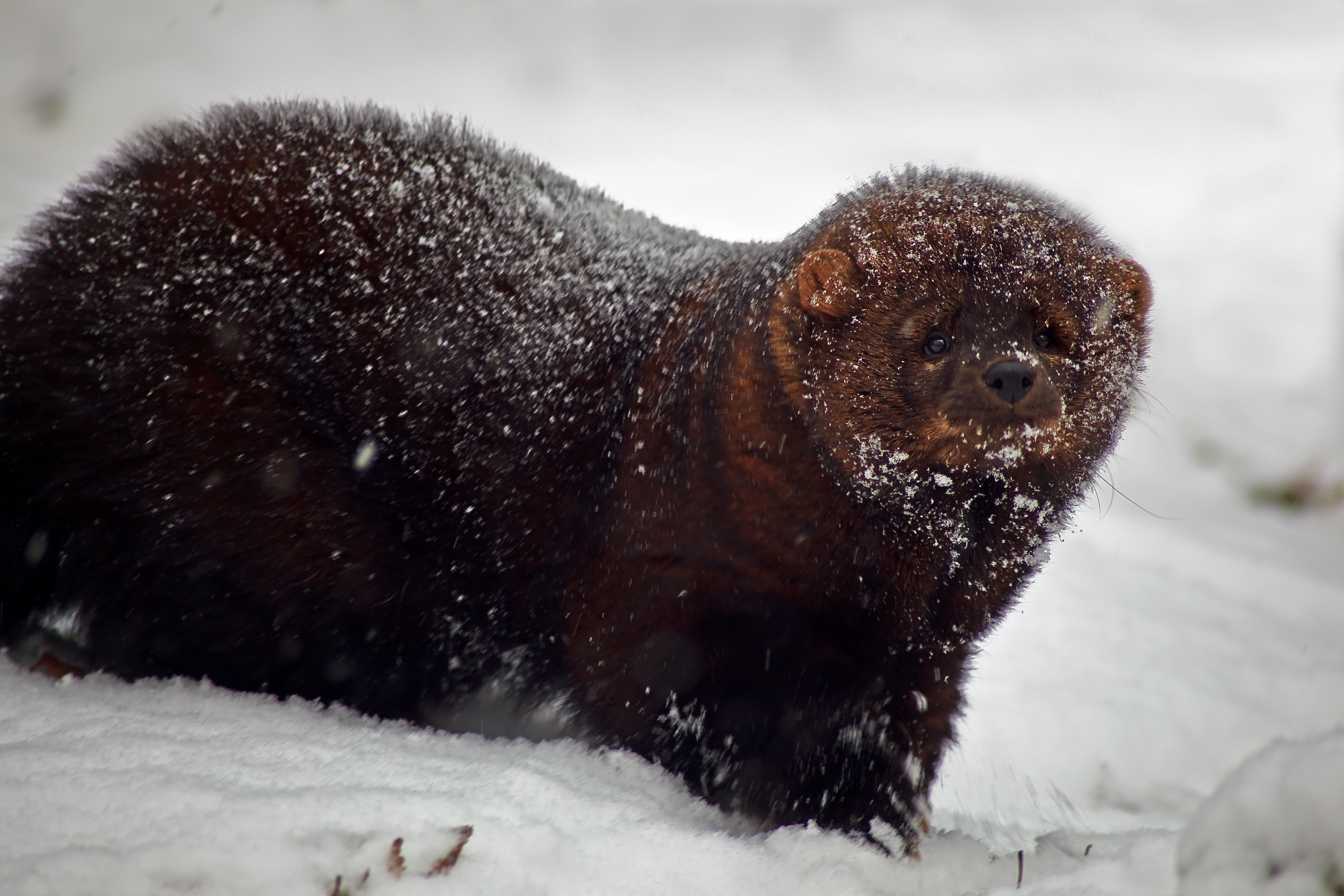 Fisher Animal Snow Storm